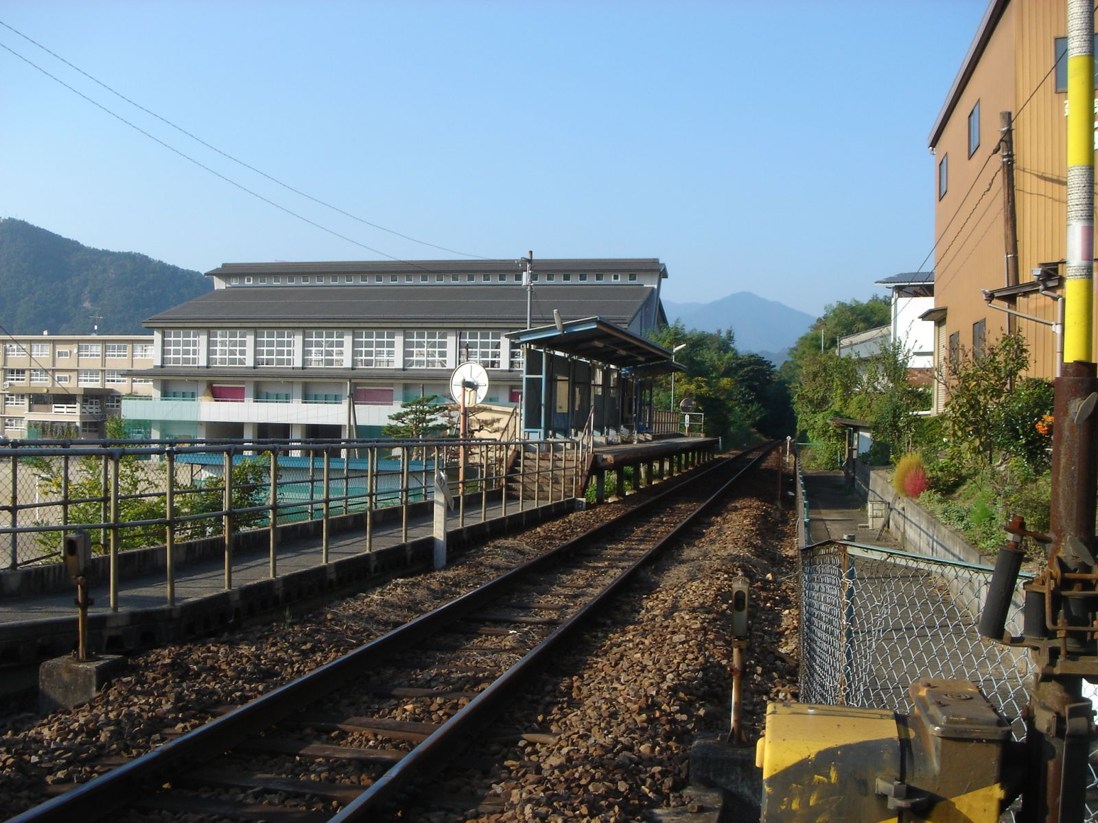 Umeyama Station (長良川鉄道越美南線、梅山駅）,Mino,Gifu,Japan(岐阜県美濃市)で撮影。岐阜県立武儀高等学校に隣接している。